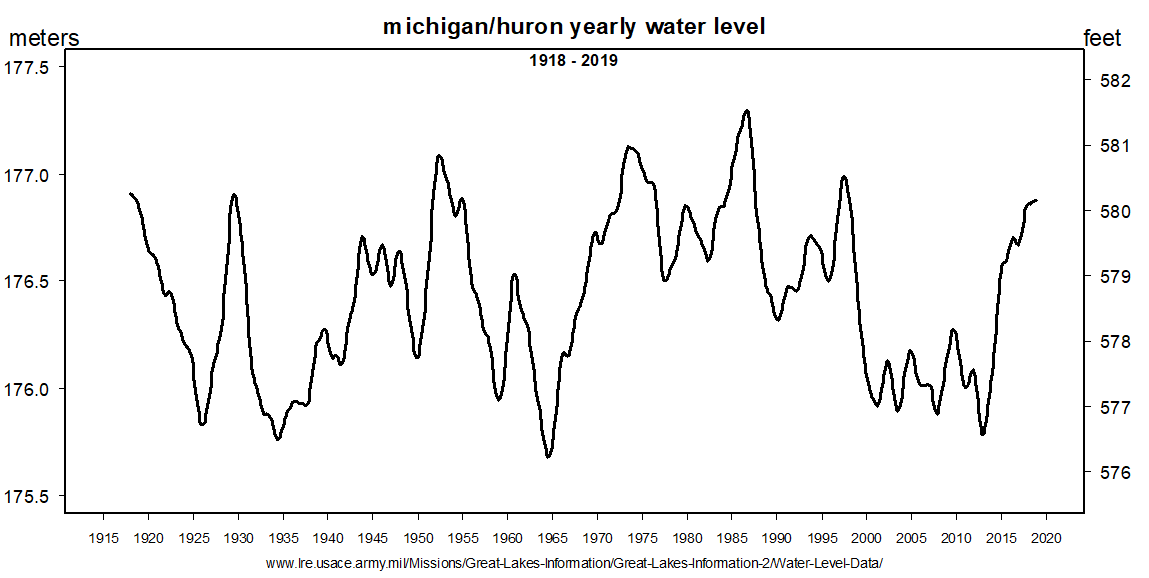 Monthly water levels were downloaded from the US Army Corps of Engineers, and then seasonally detrended using the R language detrend function to provide an estimate of average annual water levels.